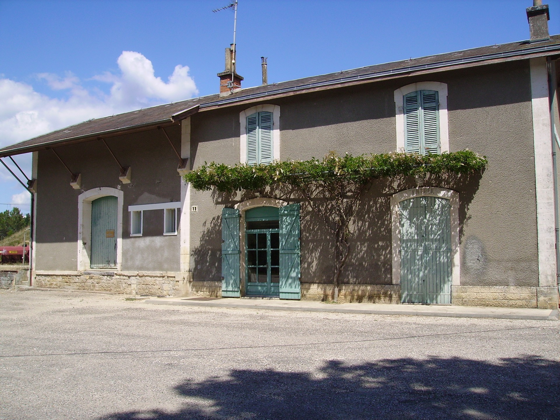 Train station